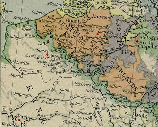 Map of Central Europe in 1786